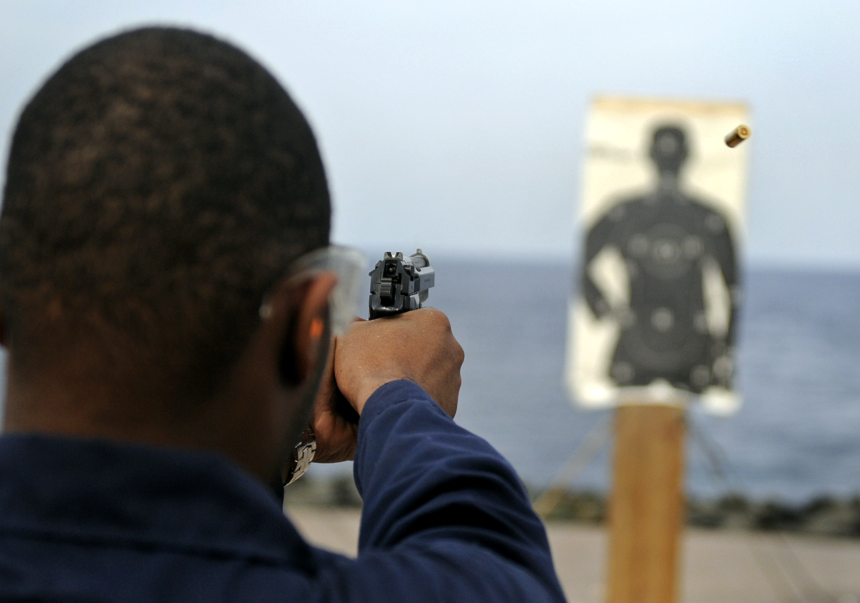 PACIFIC OCEAN (April 24, 2009) Operations Specialist 3rd Class Chazz Brown fires a 9mm pistol during a small arms qualification aboard the amphibious command ship USS Blue Ridge (LCC 19). (U.S. Navy photo by Mass Communication Specialist 3rd Class Daniel Viramontes/Released)